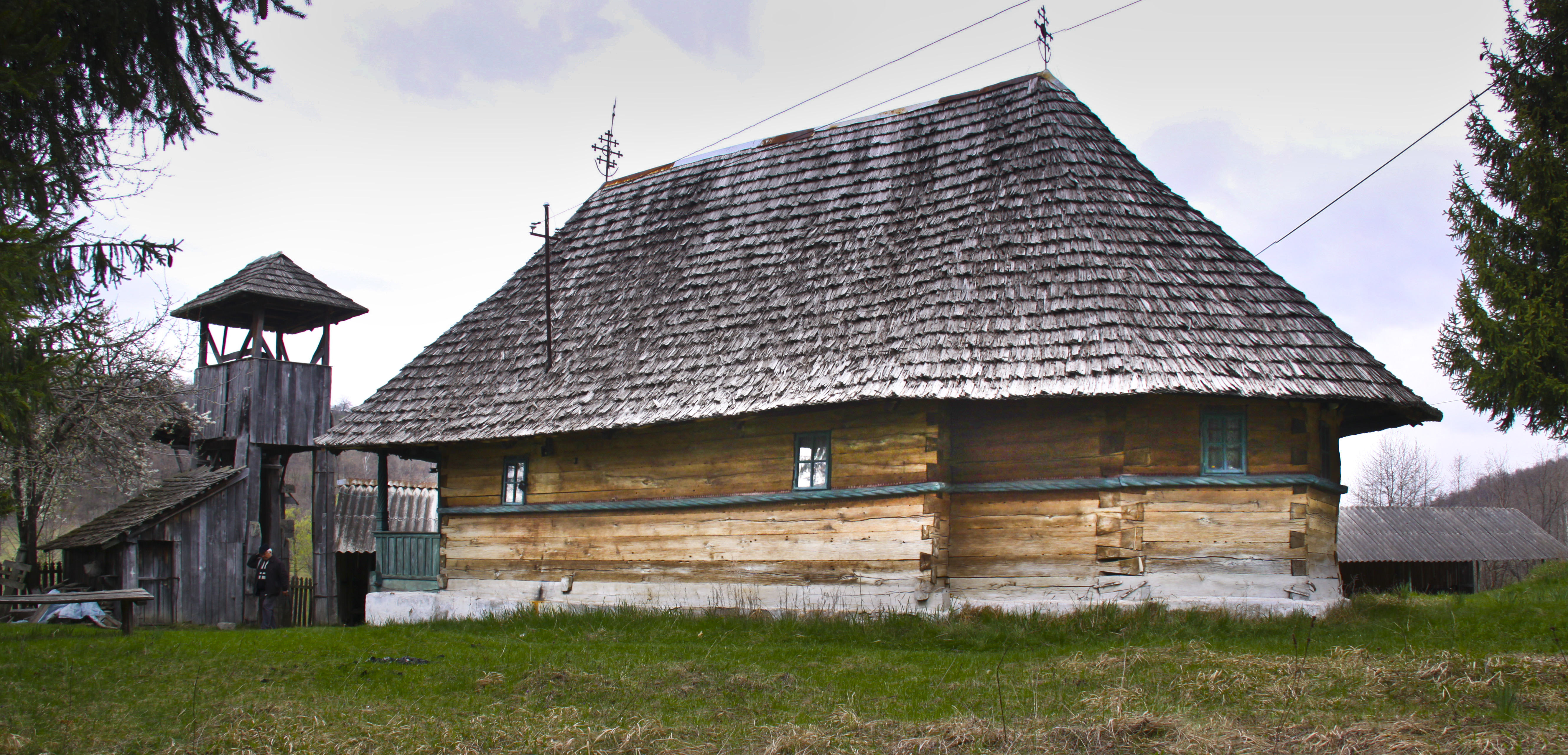 Cârceşti, Argeş county, Romania: the wooden church.